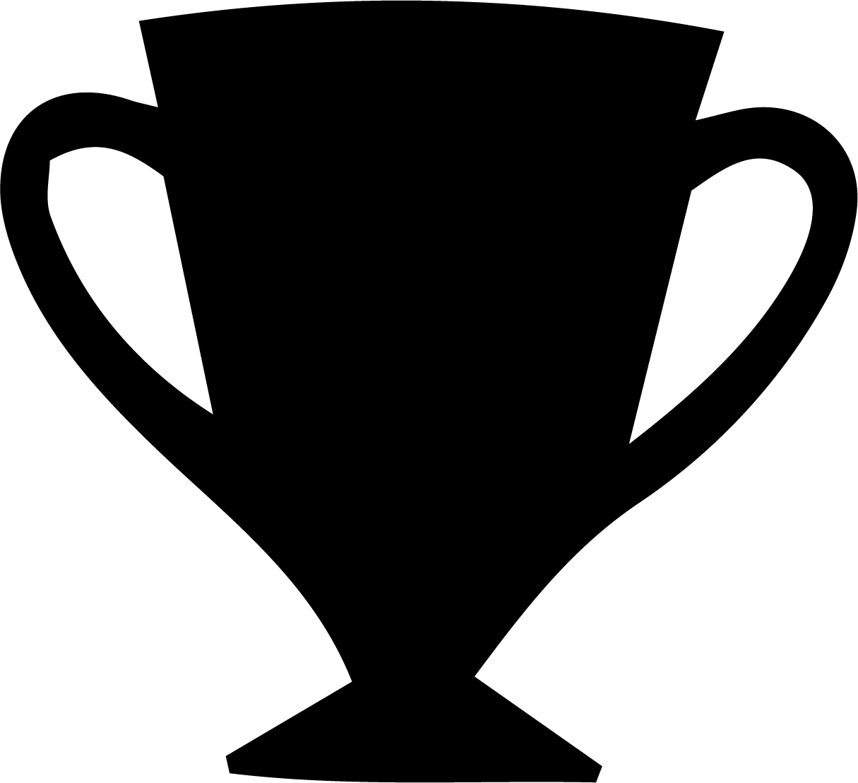 Symbol of the Quidditch Cup expansion of the Harry Potter Trading Card Game